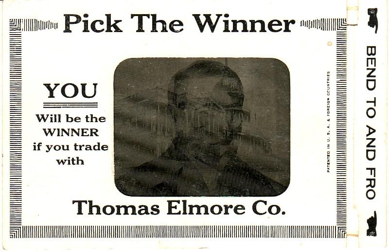 Postcard: two-way picture showing either of rival candidates for president in the United States presidential election: Woodrow Wilson or Charles Evans Hughes; U.S. Capitol is shown in the background in this image of the postcard, which shows part of Wilson's and part of Hughes' faces. Store Web page states: "This VINTAGE PUZZLE POSTCARD is [...] postally unused. NOTE: Bend one end of the card to and fro to see WILSON and then HUGHES"